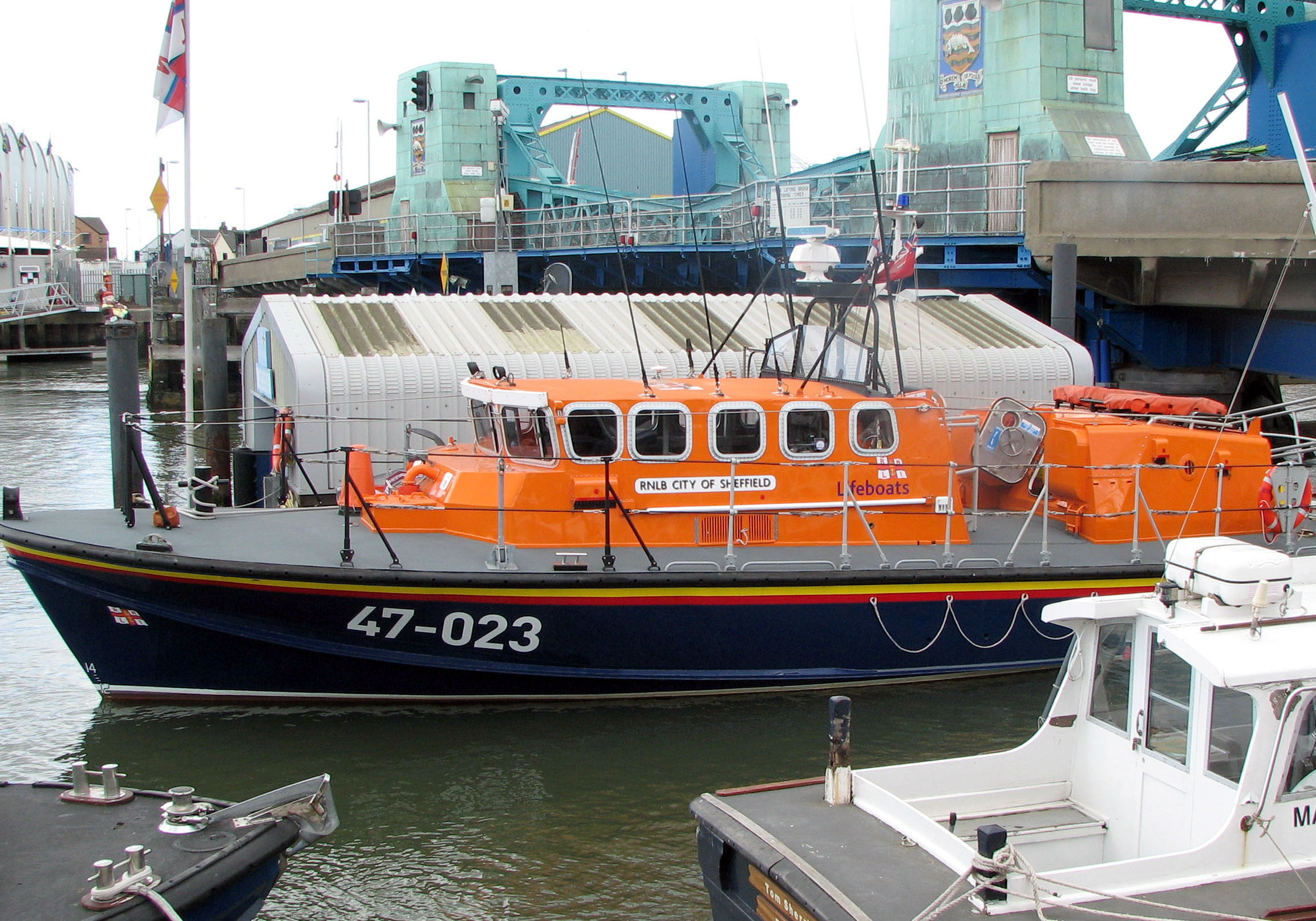 Tyne-class lifeboat City of Sheffield in Poole Harbour, Dorset, England. Length: 14 metres. Max speed 17 knots (20 mph). Crew:6. This class is being slowly replaced (2006) by the Tamar-class lifeboat.